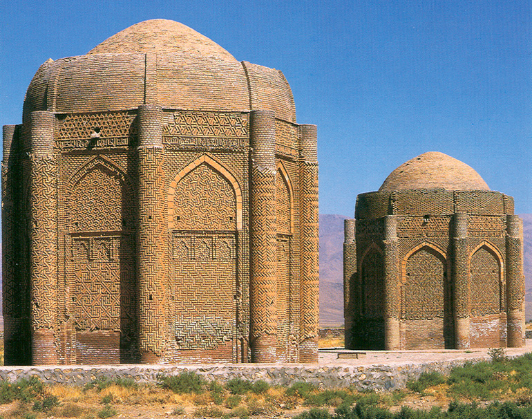 Kharaghan twin towers, Qazvin province, 1067 AD, Iran. Here are the tombs of two Seljukian princes. A devastating earthquake in 2002 severely damaged both towers. Photo by user Zereshk.